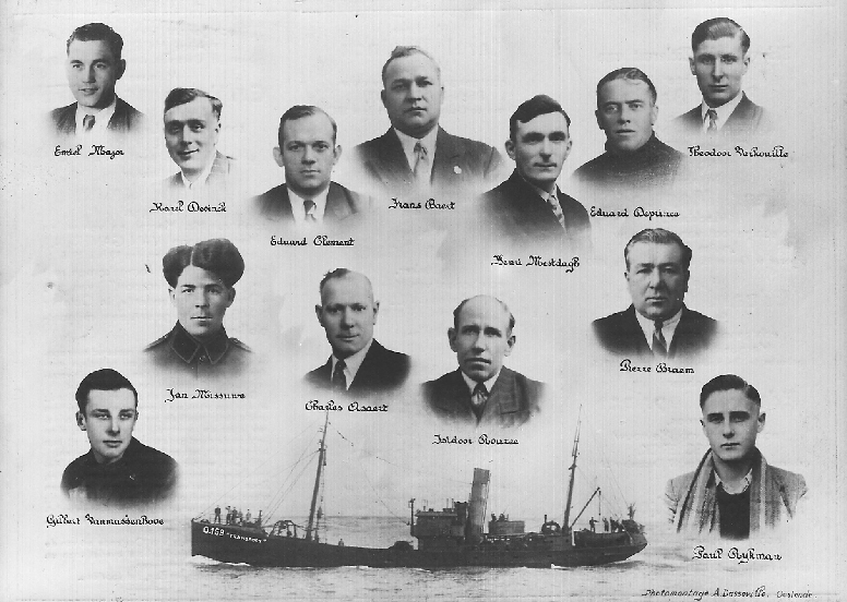 In memoriam card (front) O.159 "Transport" (lost at sea)